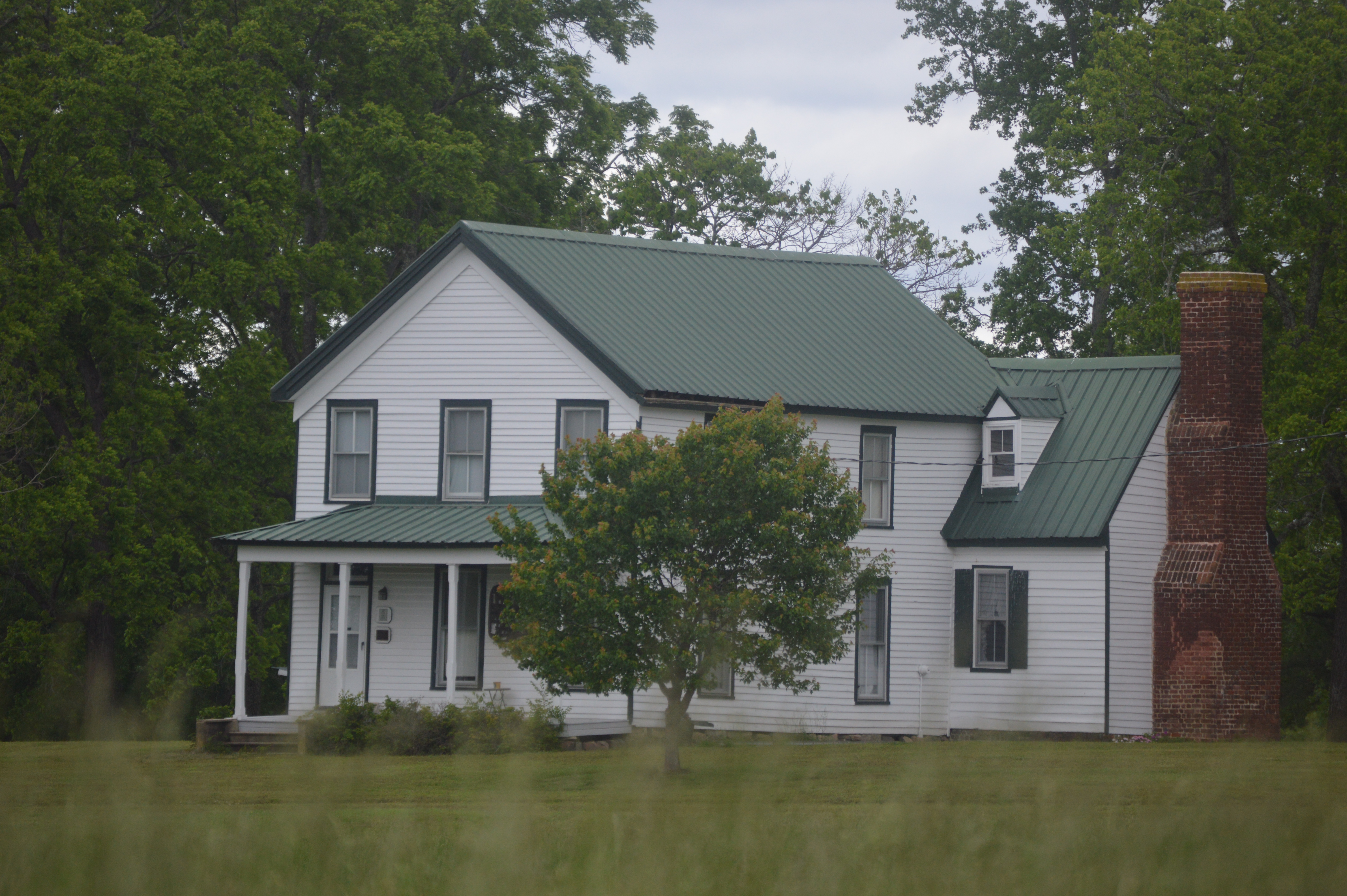 Front and eastern side of the Stony Creek Plantation House, located on Hills Drive west of Dinwiddie Court House in Dinwiddie County, Virginia, United States. Built in 1750, it is listed on the National Register of Historic Places.